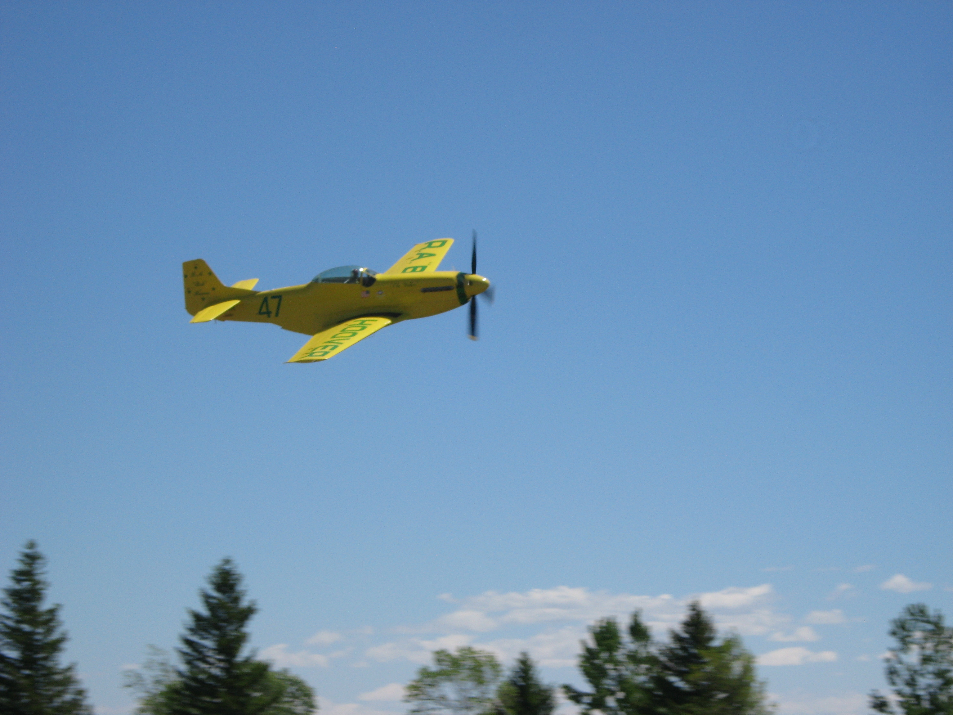 I snapped this photo at the airshow in Rexburg, ID on Jun 14, 2008. The plane is a P-51 Mustang that formerly belonged to Bob Hoover. It is currently owned by (and flown by) John Bagley of Rexburg, ID.